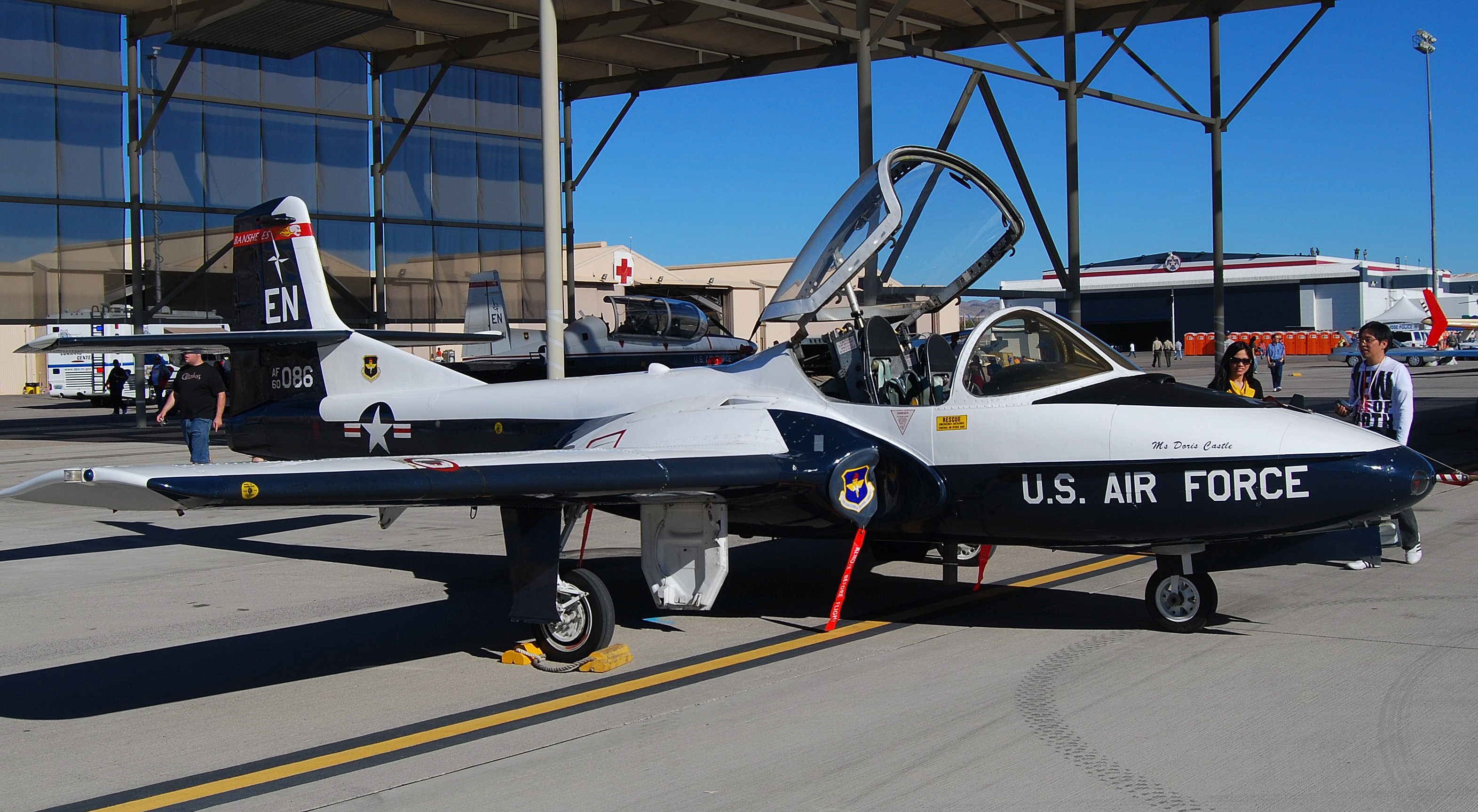 Cessna T-37B Tweety Bird USAF 60-0086